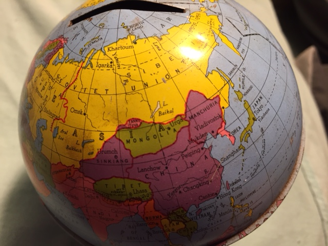 Tannu Tuva on an U.S globe bank. (Note the incorrect "Khartoum" in northern Siberia.)